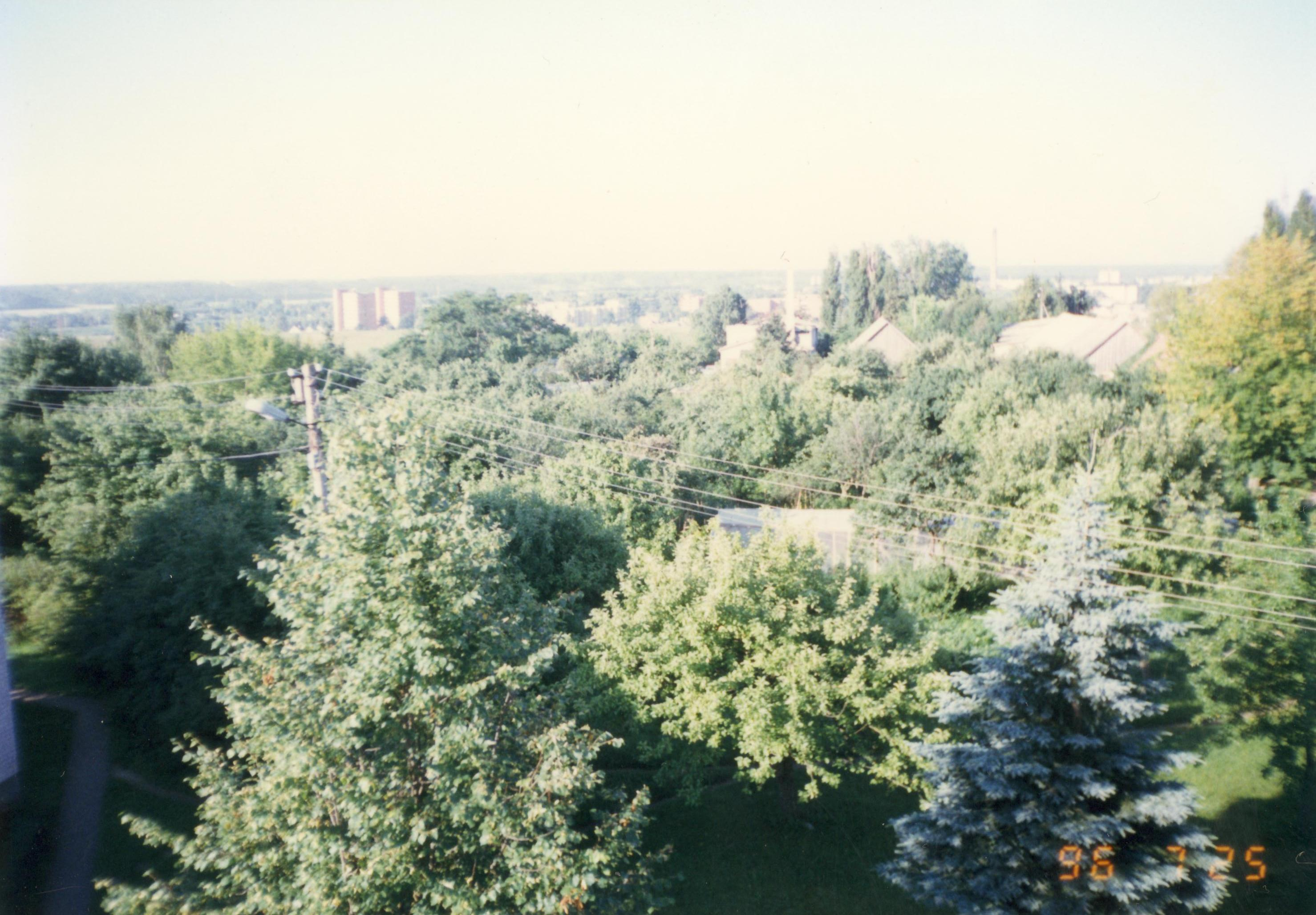 Sodai Jonavos M/U gyvenvietėje. Tolumoje - Paneriai (Jonavos miesto dalis)